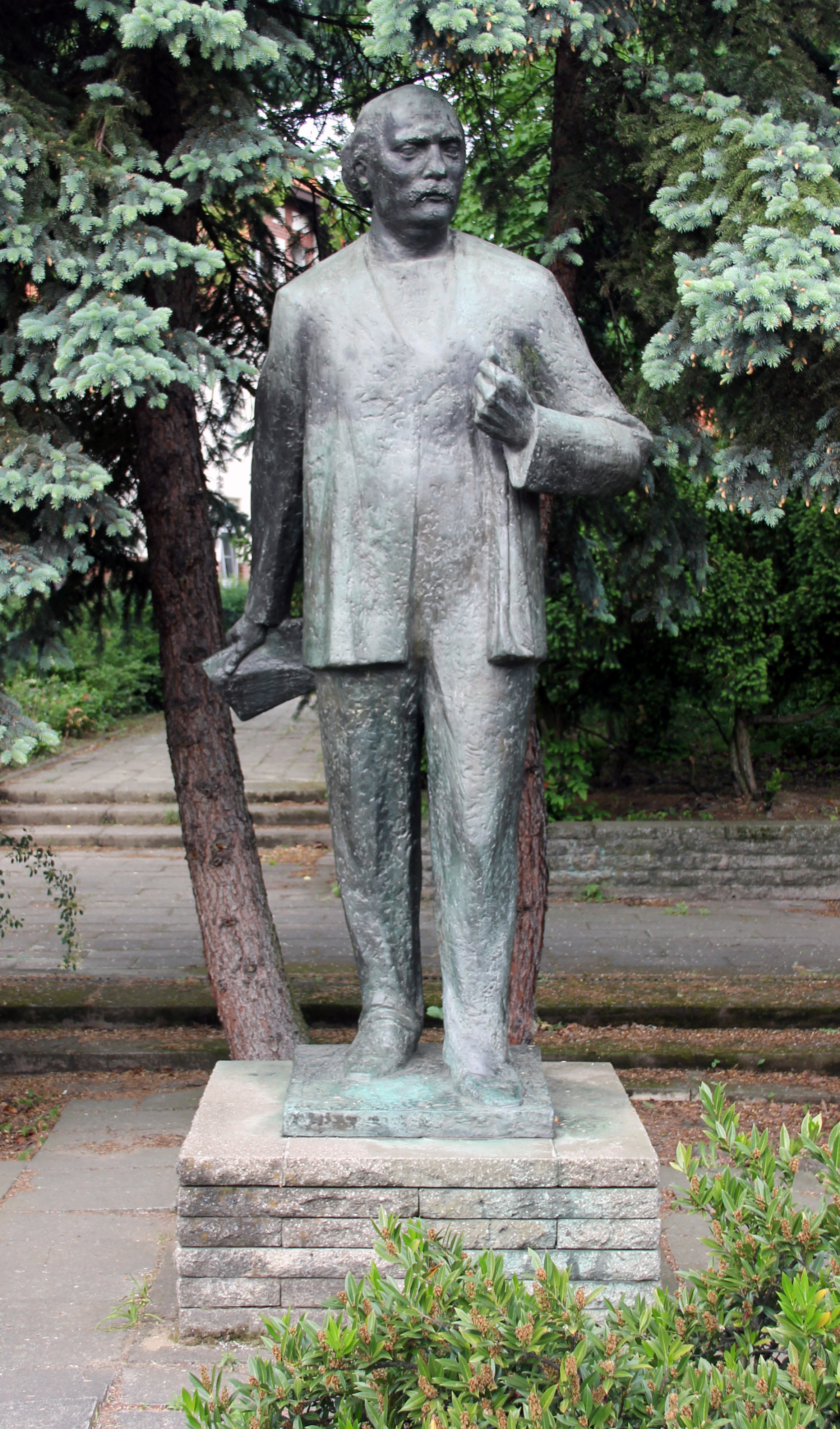 Statue, Hermann Duncker" by Walter Howard, 1976, Treskowallee 114, Berlin-Karlshorst, Germany